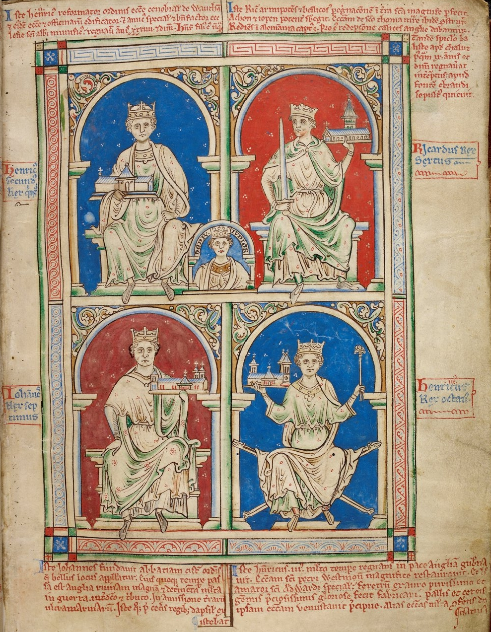 Matthew Paris, Chronica Majora BL Royal.C.vii f. 9r with text